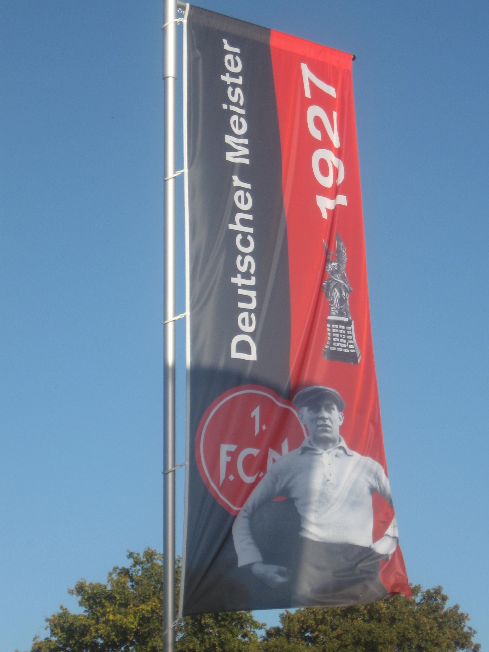 FC Nürnberg as a champion'1927 banner. Heinrich Stuhlfauth photo .